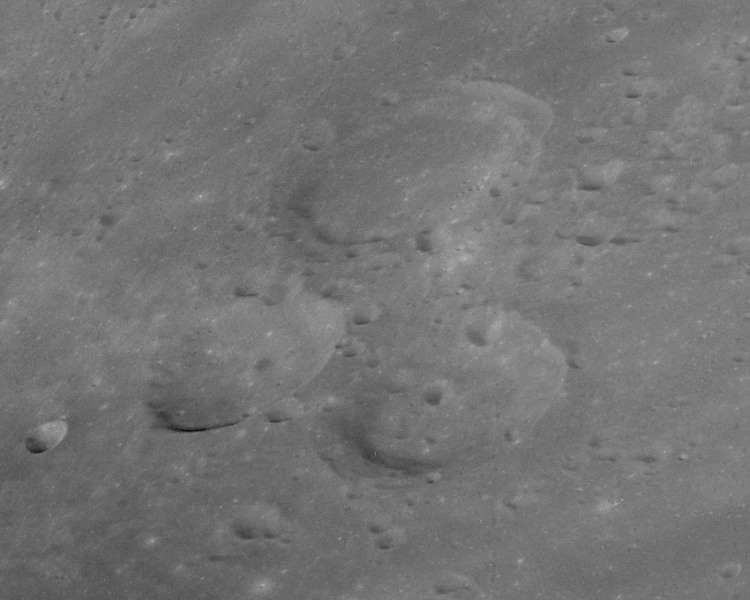 Oblique view of Bilharz (top), Atwood (lower left), and Naonobu (lower right), Mare Fecunditatis, on the moon, facing west. Brightness and contrast modified slightly.